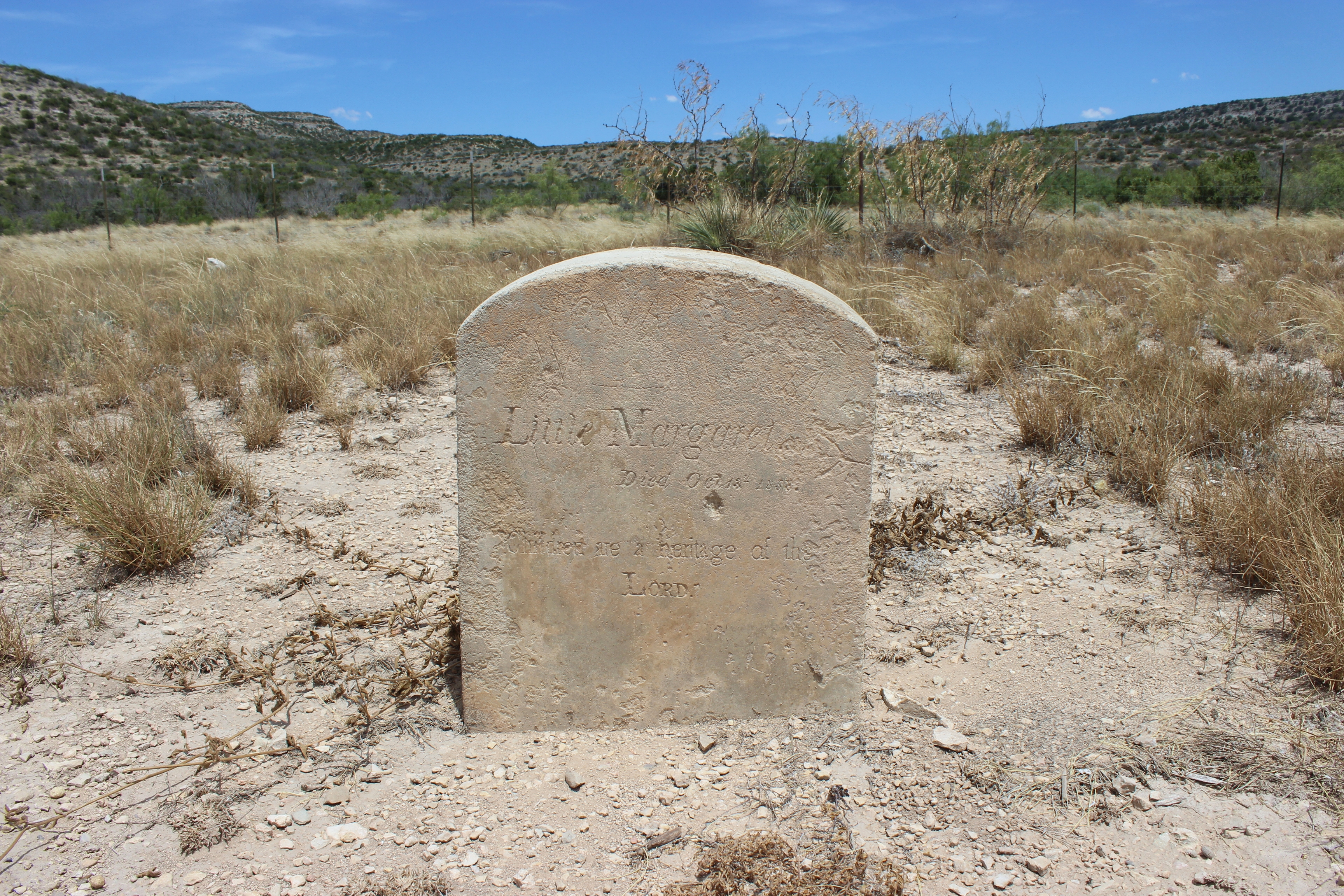 Fort Lancaster State Park grave of "Little Margaret", died Oct. 13th 1858. Reads, "Children are a heritage of the LORD."